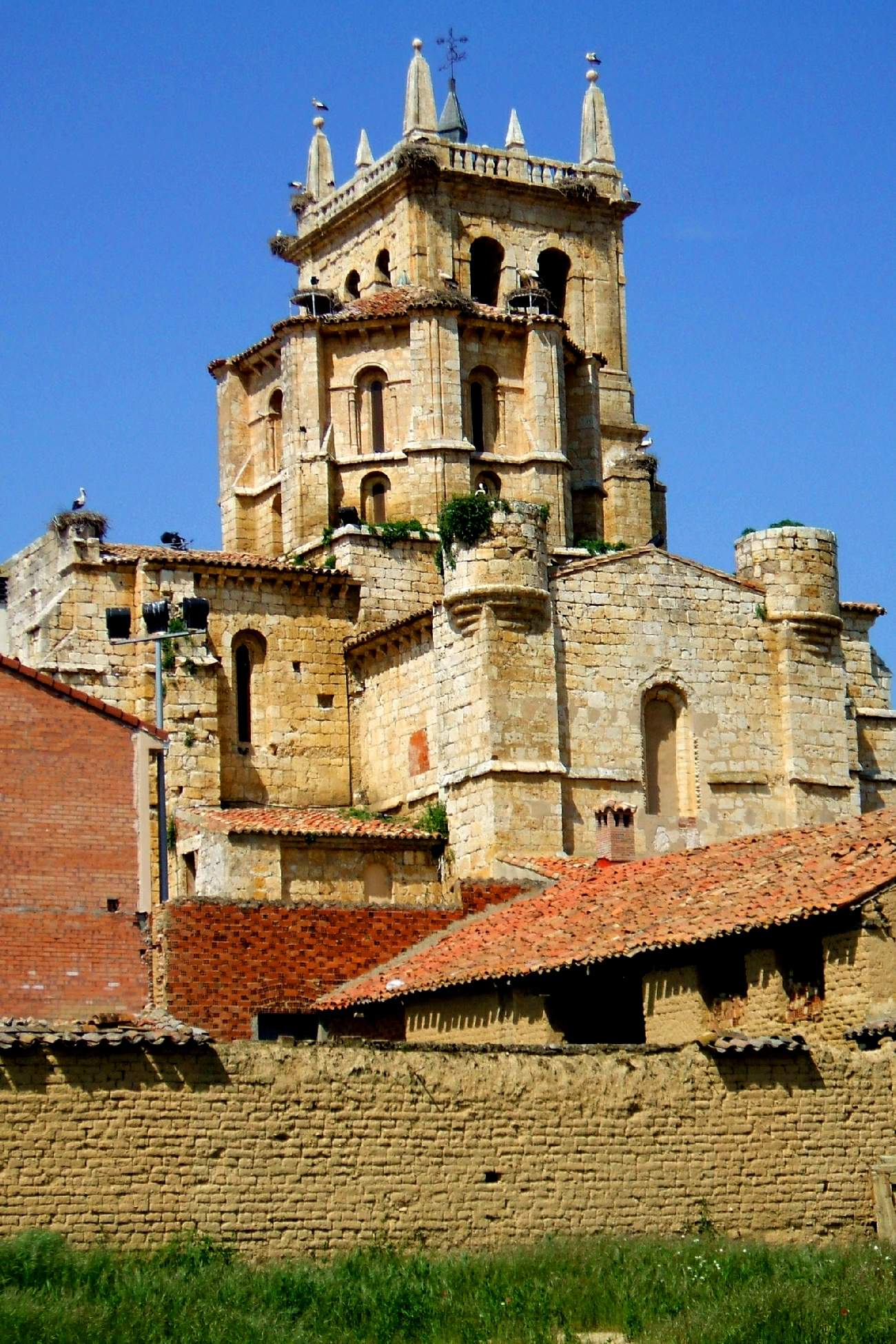 Cimborrio y torre de la iglesia de Santa María la Mayor de Villamuriel de Cerrato, Palencia, Castilla y León, España